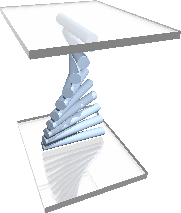 Liquid cristals between glass plates.